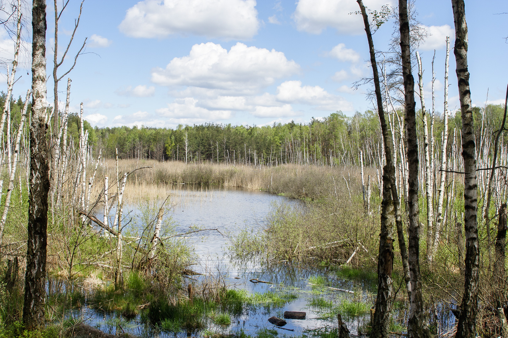 Macierowe Bagno (a swamp), spring. Stara Miłosna, Wesoła, Warsaw, Poland. This is a photography of protected area with CRFOP ID PL.ZIPOP.1393.PK.72